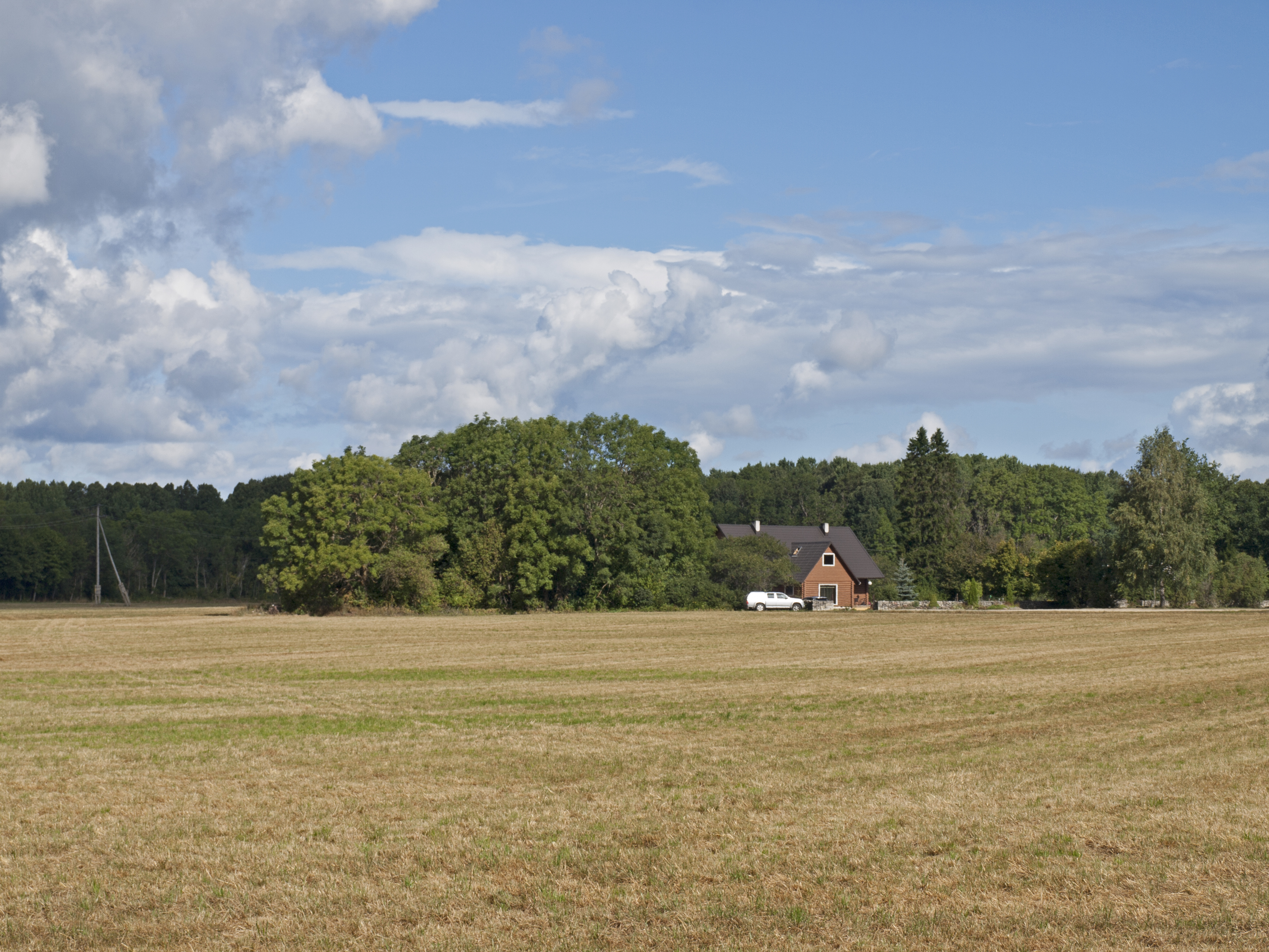 House in Irase, from the crossing of 86 and 118